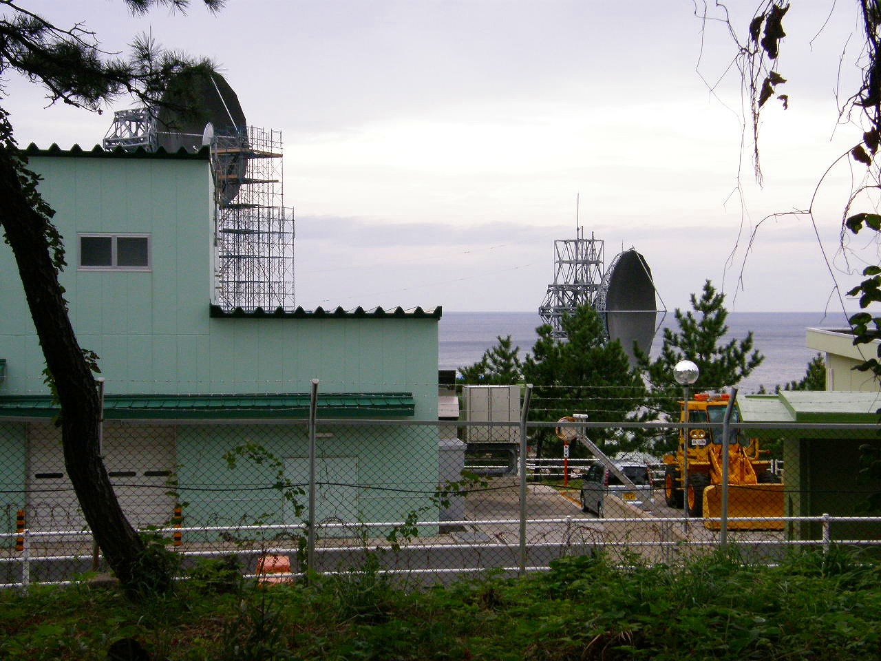 JASDF Kyougamisaki Sub Base